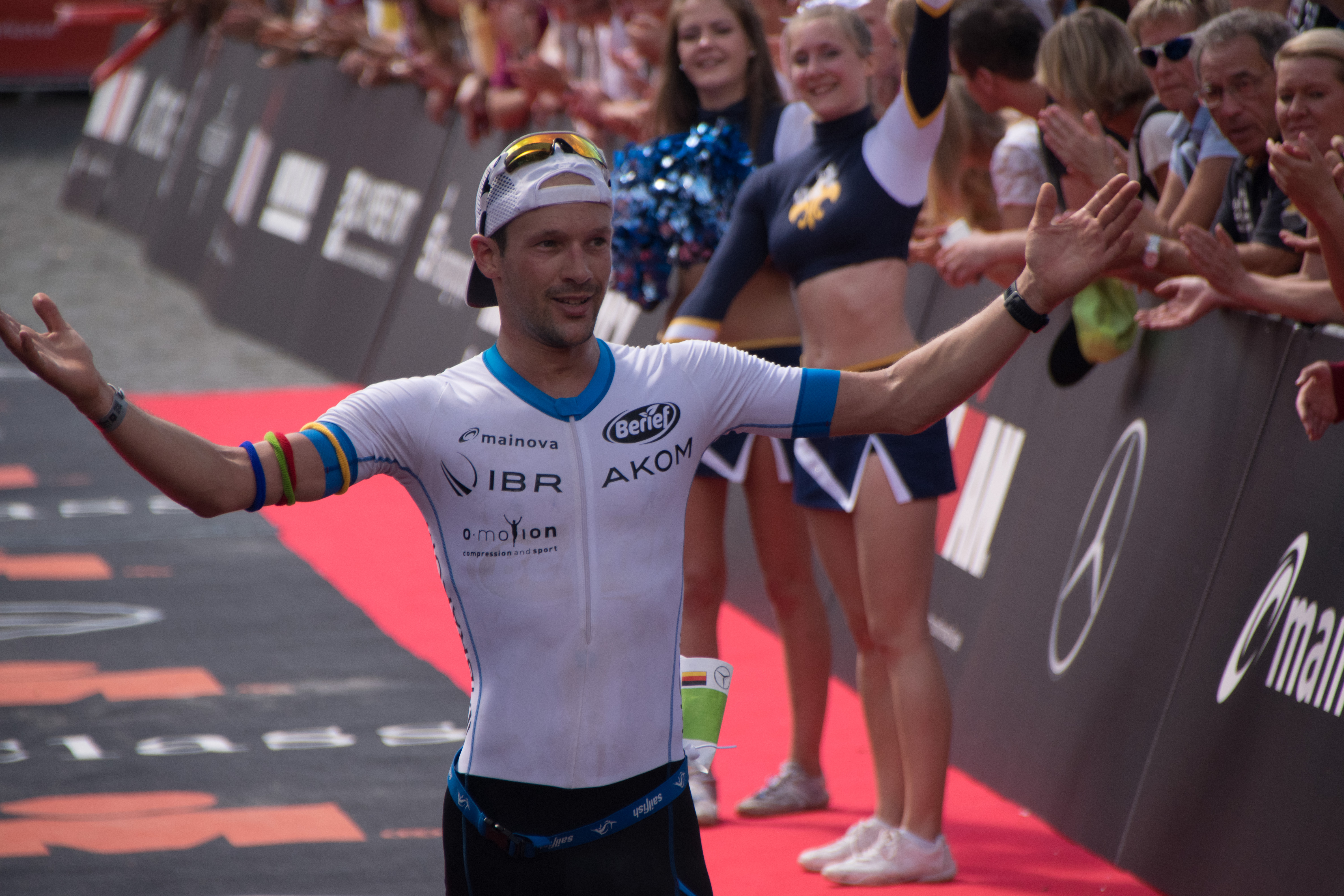 Ironman 70.3 Germany am 14. August 2016 in Wiesbaden